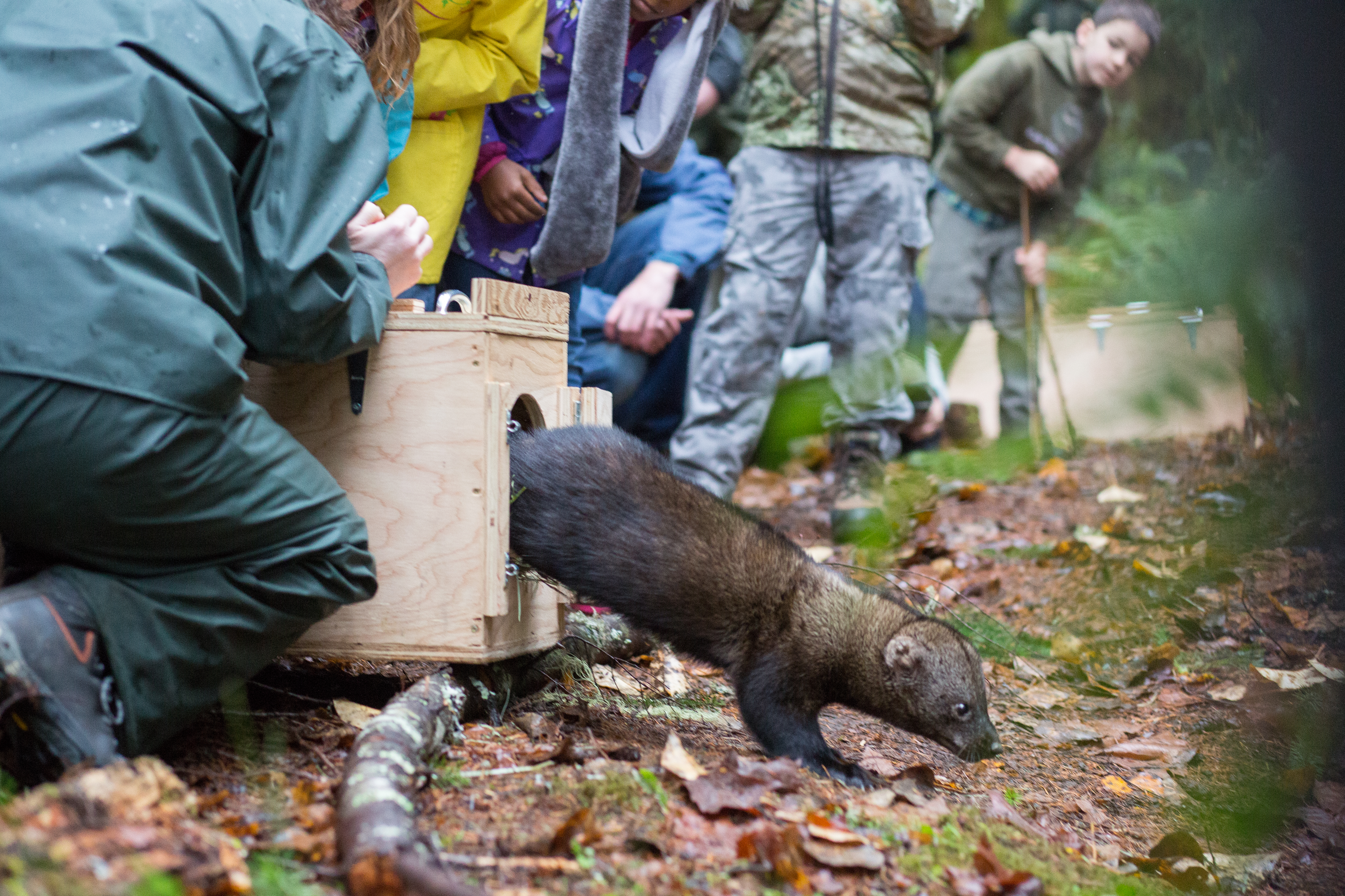 A fisher leaps from its holding container and darts off into the Gifford Pinchot National Forest, a major step toward restoring the species to an ecosystem in which it has been missing for more than 70 years. NPS Photo by Kevin Bacher